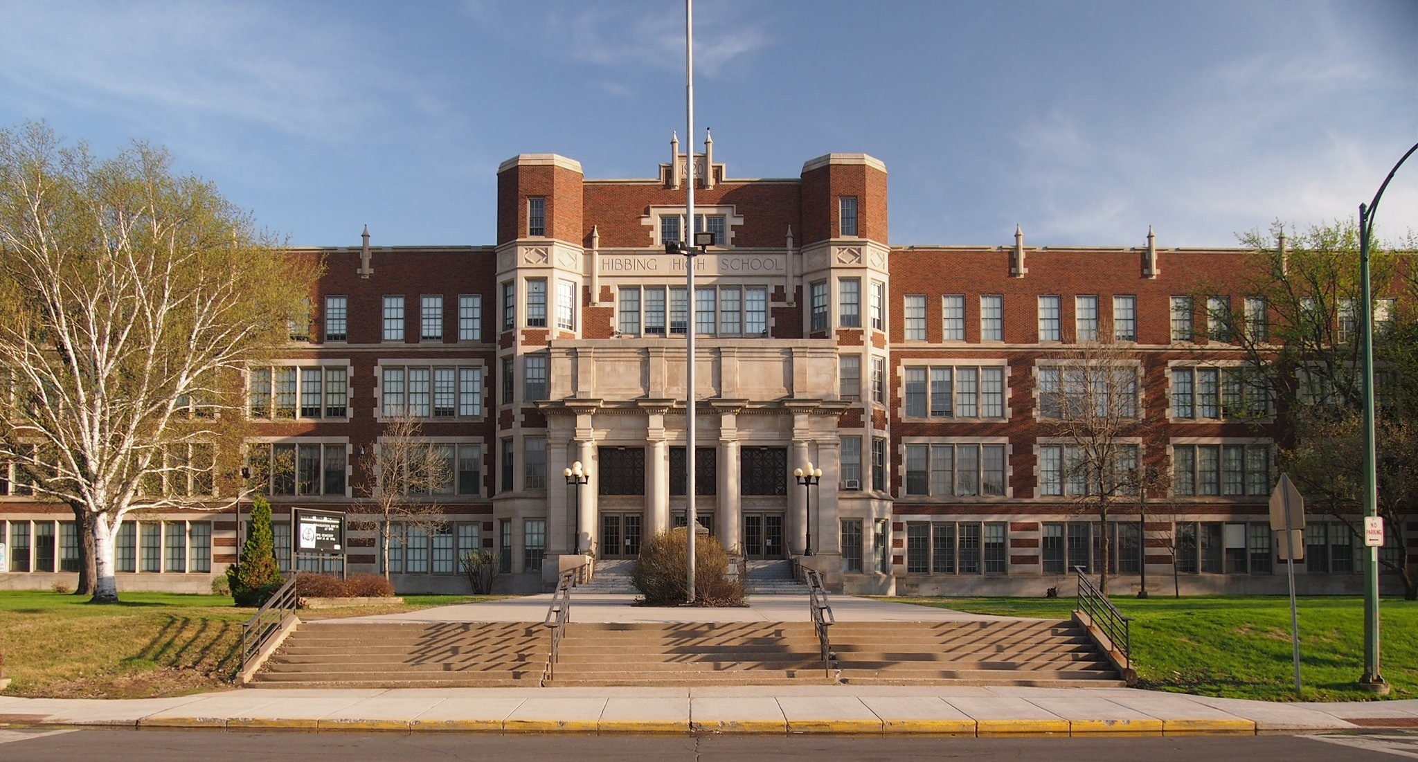 Hibbing High School, Hibbing, Minnesota, USA. Viewed from the north.